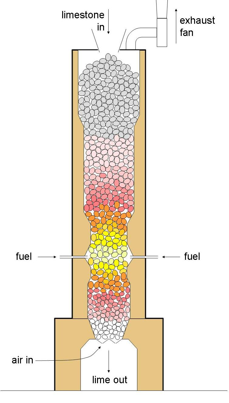 Typical early shaft kiln as used in lime and cement manufacture